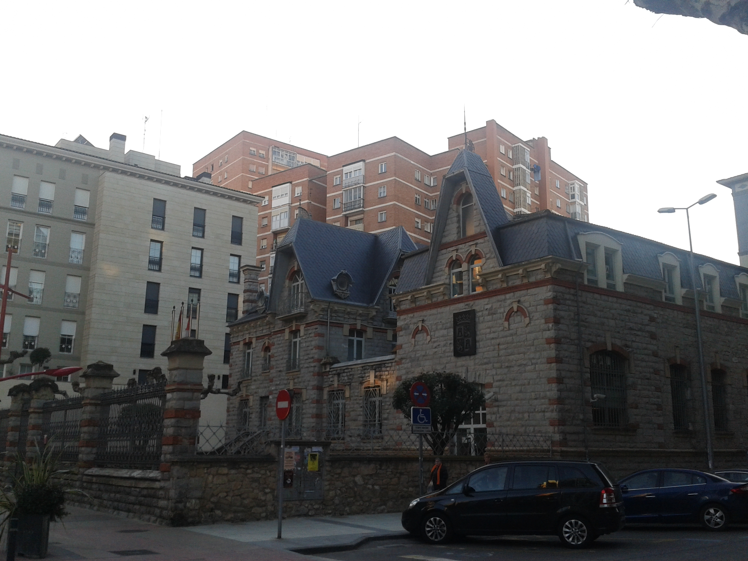 Old monastery and now delegation of Castilla y Leon government in Miranda de Ebro, Spain.